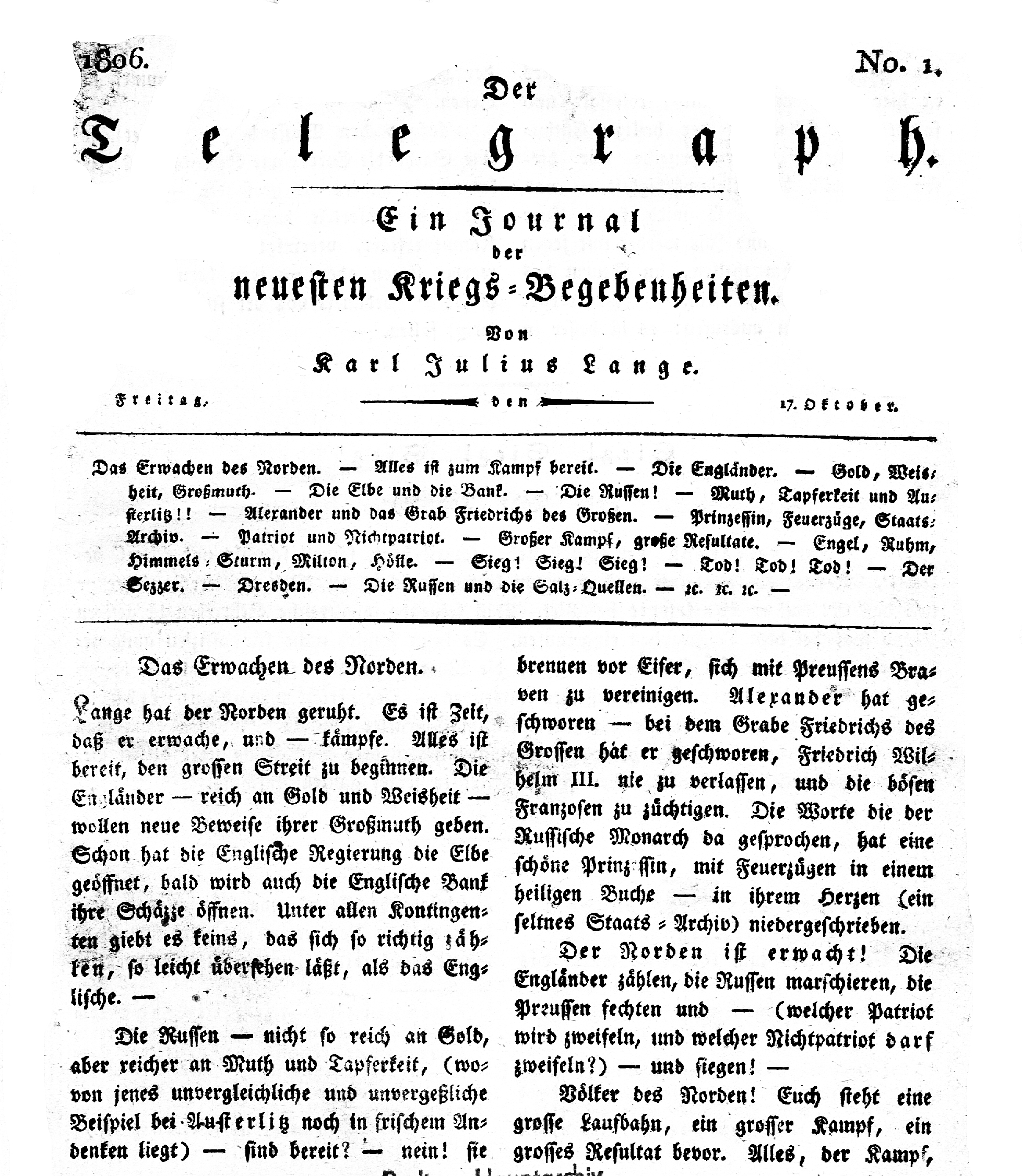 First Edition of the Berlin "Telegraph" (October 17, 1806)